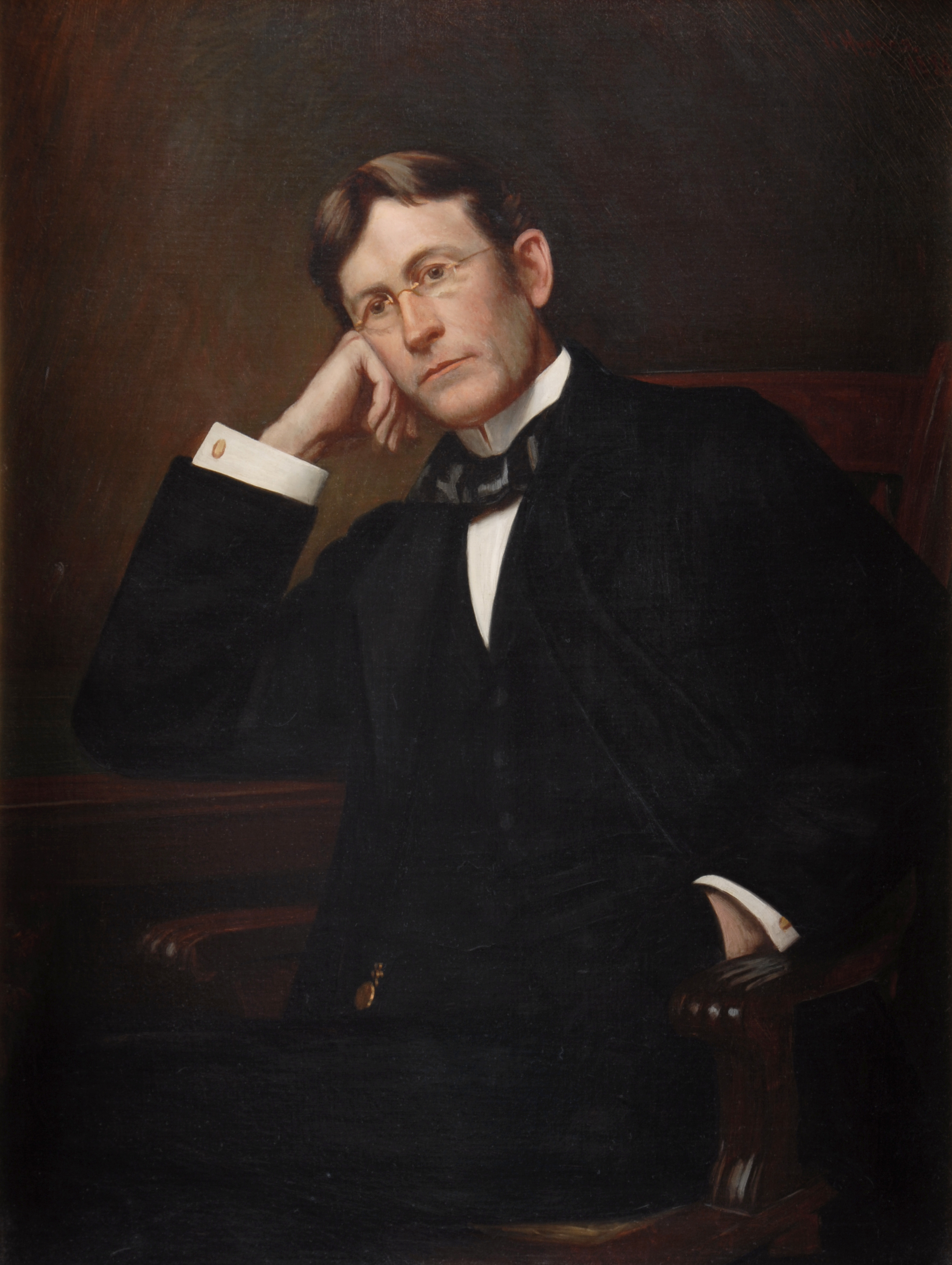 Frank Swett Black (New York governor)